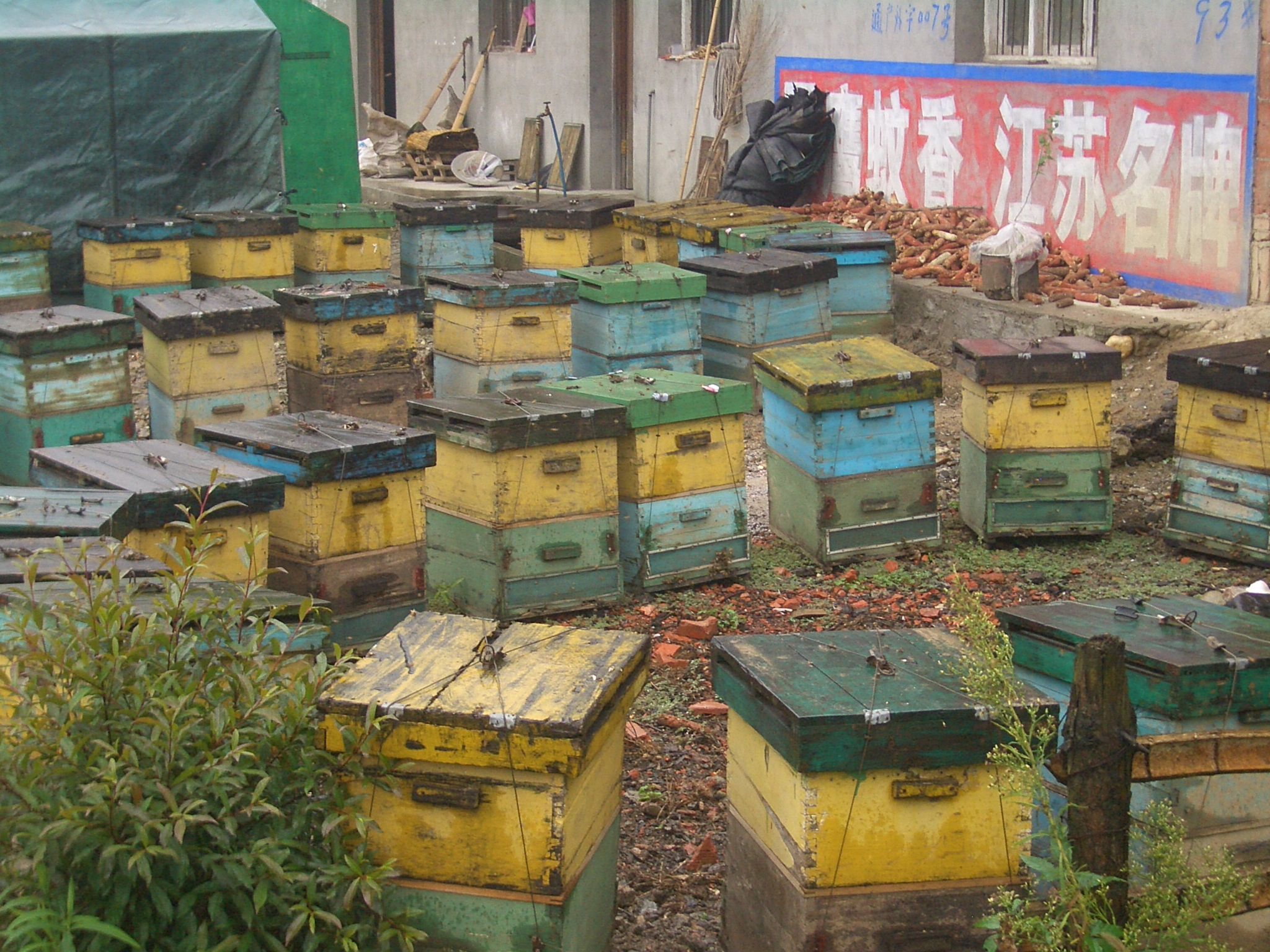 Bee hives in Tongshan County, Hubei. Picture taken from G106 east of Tongshan.